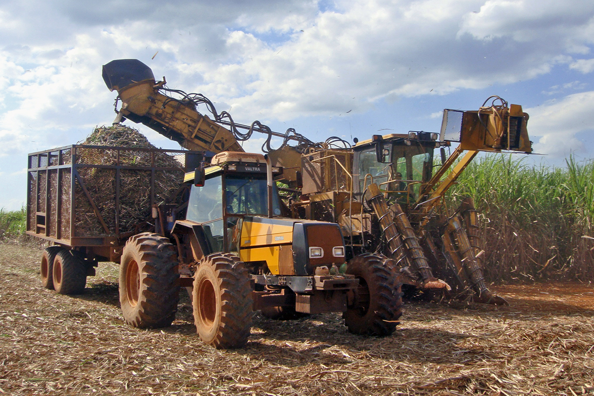 Sugarcane mechanized harvest operation (without burning) at Piracicaba, Sao Paulo, Brazil